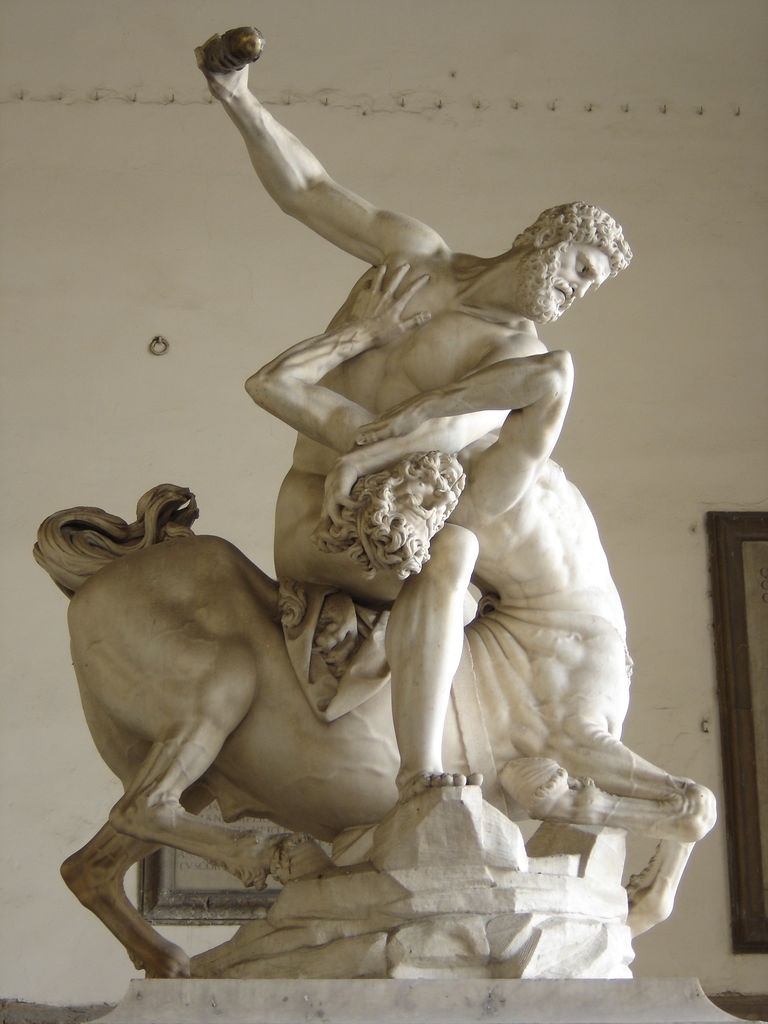 Statue of Hercules killing the Centaur, by Giambologna. Located in the open-air gallery (Loggia dei Lanzi) on the Piazza della Signoria in Florence, Italy.